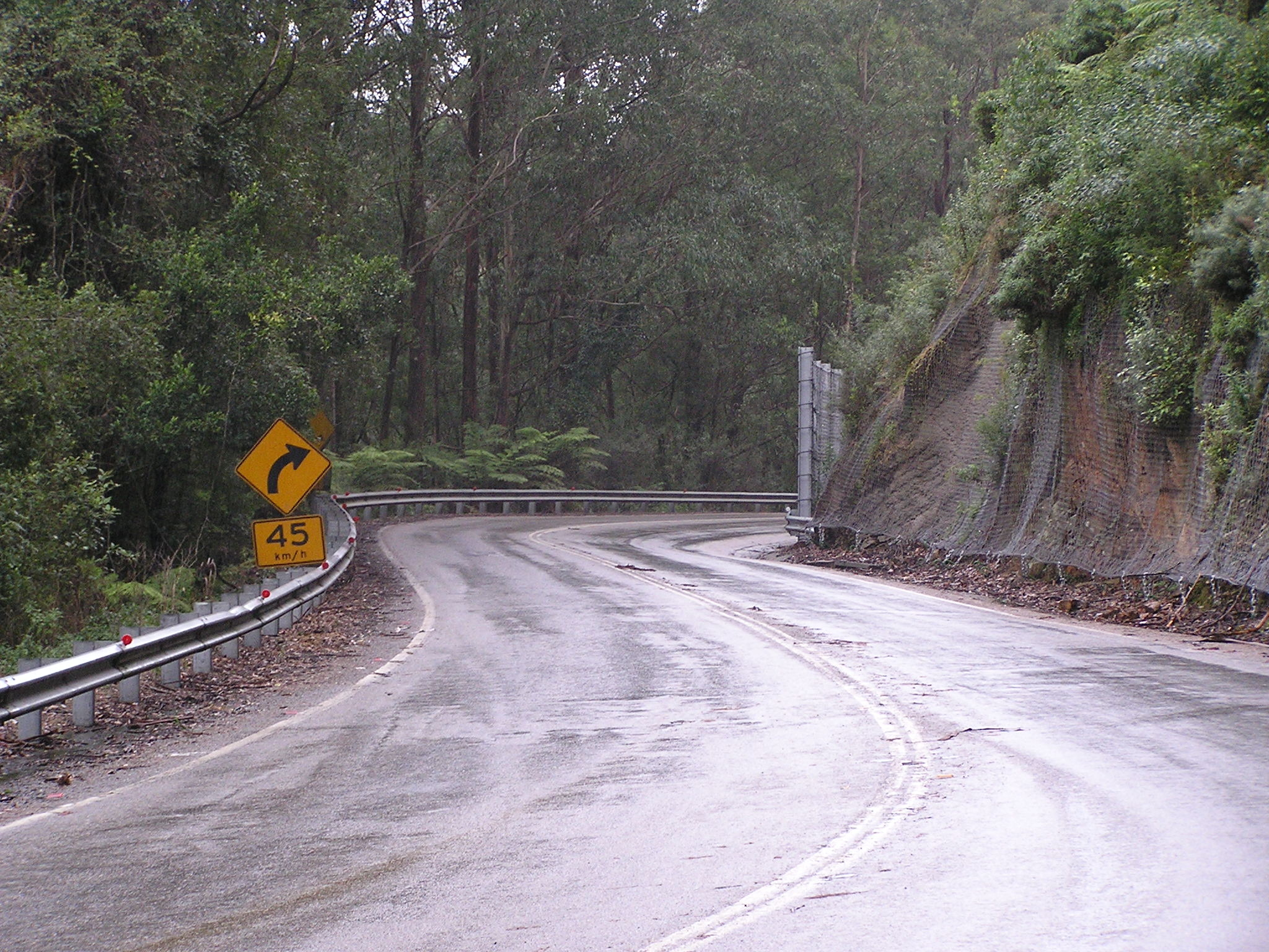 Climbing the Clyde Mountain on the Kings Highway (Canberra to Batemans Bay), New South Wales, Australia.